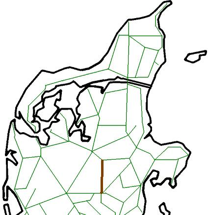 Map of railways in the northern Jutland in Denmark with the private railway Silkeborg-Kjellerup-Rødkjærsbro Jernbane in brown.